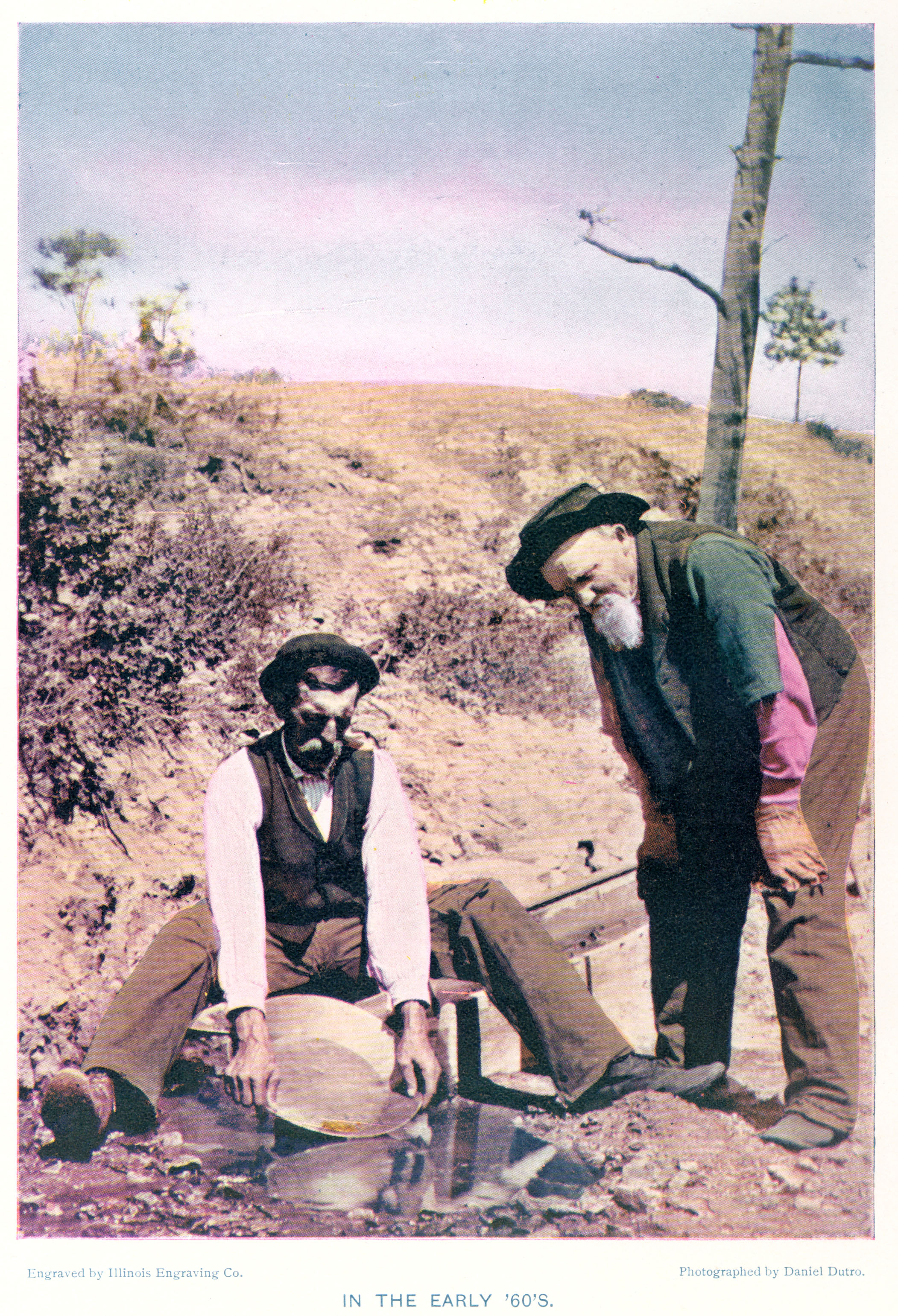 Mining prospectors in Montana, circa late 1880s-1890s